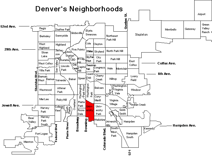 University, Denver, highlighted in this map of Denver neighborhoods. Made using graphicconvertor